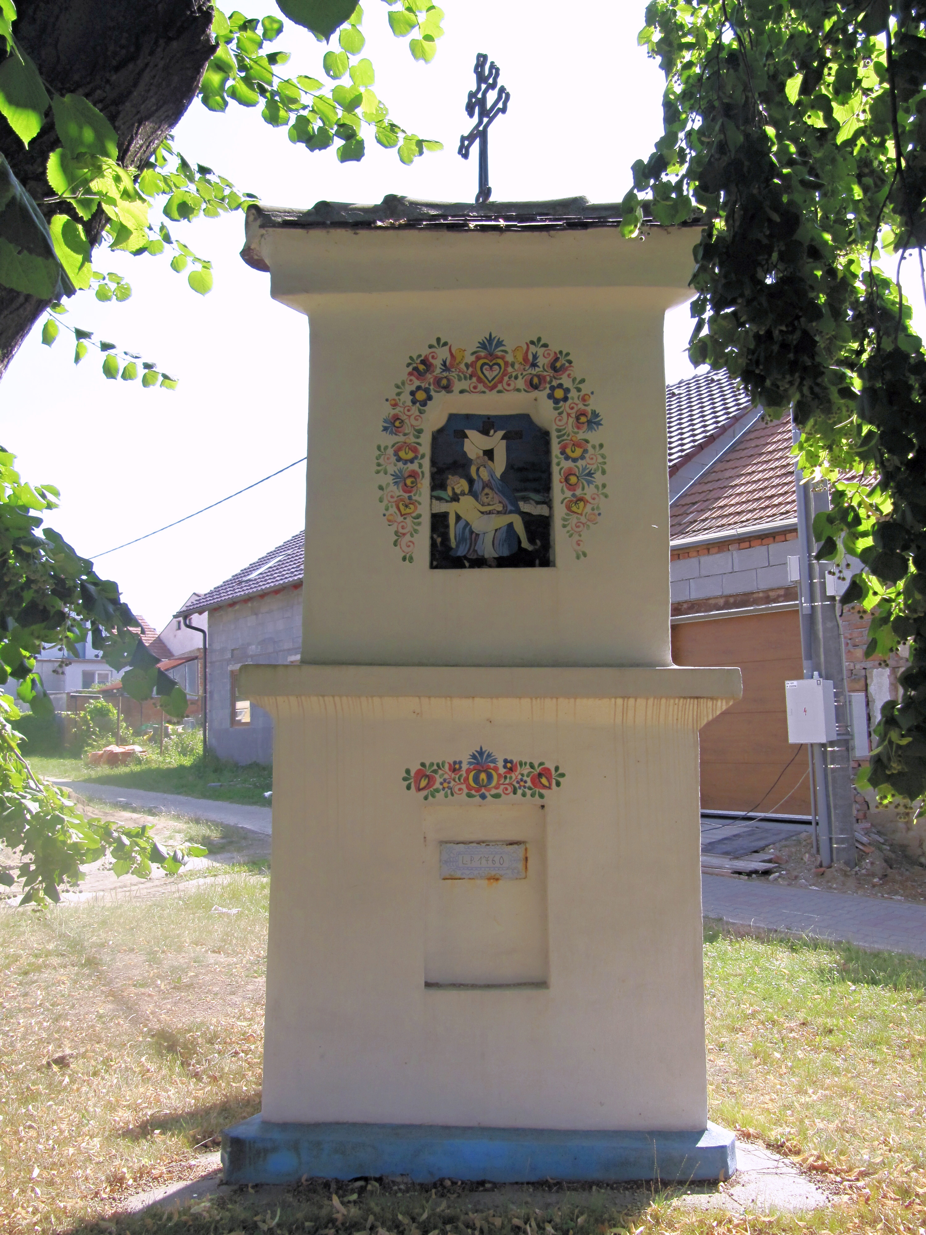 Tvrdonice in Břeclav District, Czech Republic. Calvary from 1760. This photograph was taken within the scope of the third year of the 'Czech Municipalities Photographs' grant.